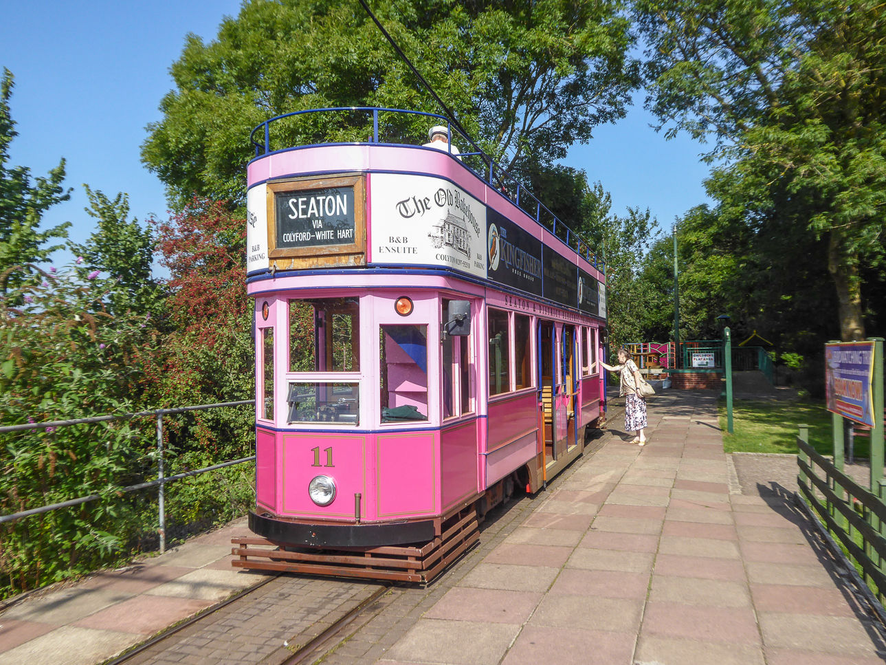 Tram in Colyton Station, Devon